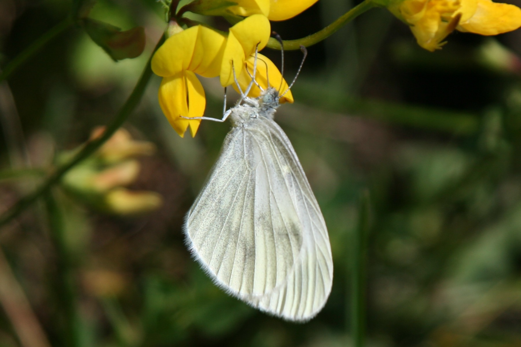 A Wood White (Leptidea sinapis/Leptidea reali) photographed in Dörzbach-Hohebach